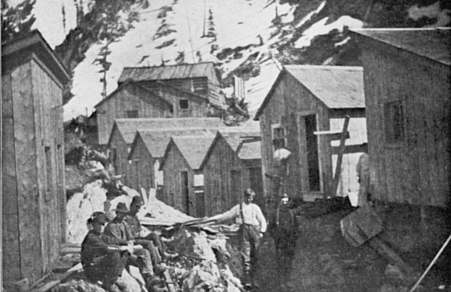 Housing for quarry workers located on the west-north side of the Yule marble quarry operated by the Colordao-Yule Marble Company, Built sometime shortly after November 1908